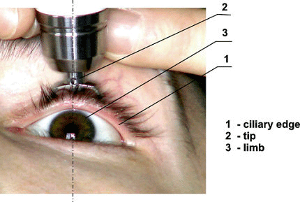 Position of the Transpalpebral Diaton Tonometer Tip on the Eyelid with No Contact with Cornea or use of Anesthesia